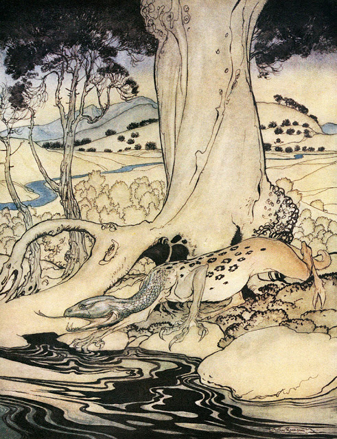 "The Questing Beast." From The Romance of King Arthur (1917). Abridged from Malory's Morte d'Arthur by Alfred W. Pollard. Illustrated by Arthur Rackham. This edition was published in 1920 by Macmillan in New York.